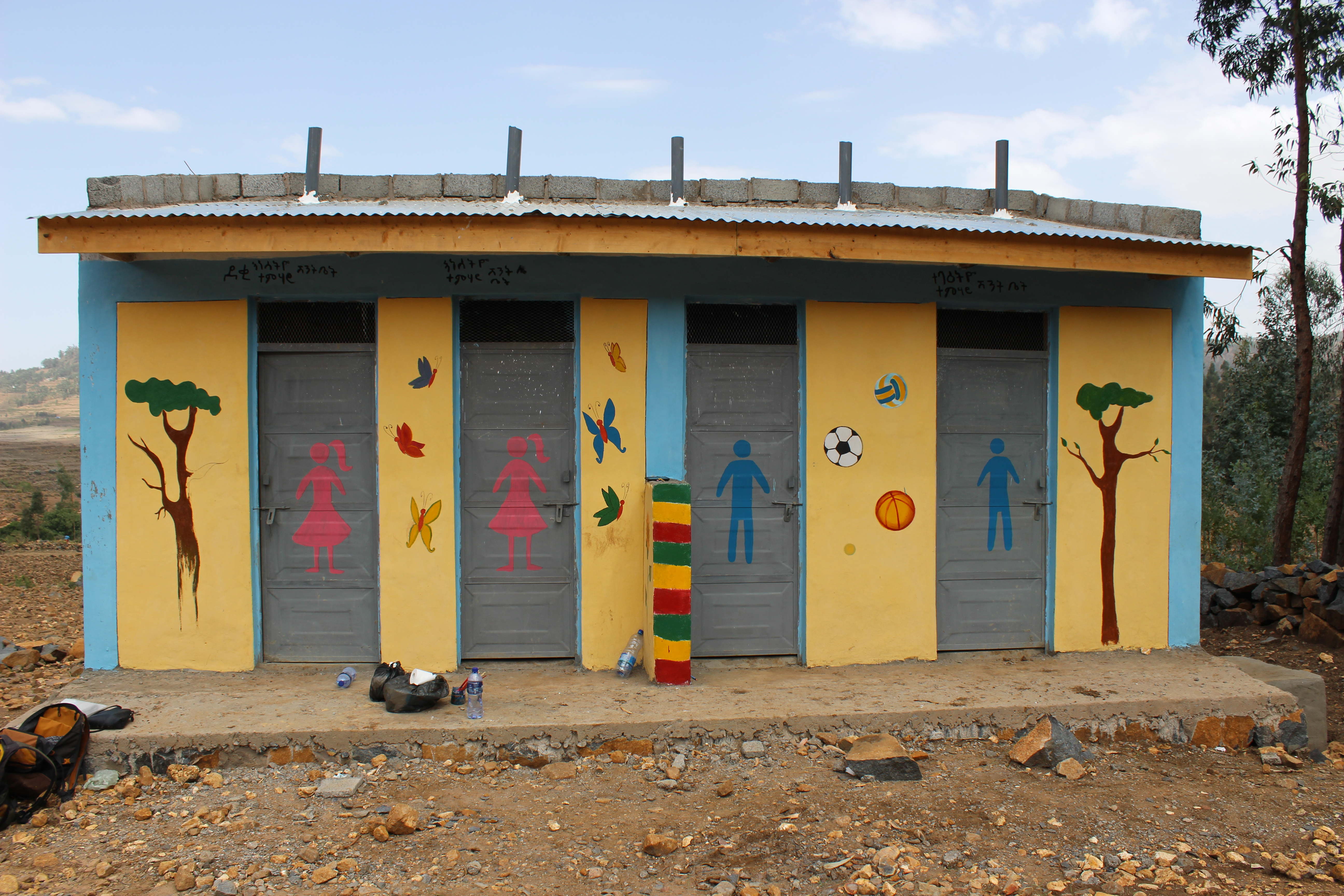 May Sa'iri ecosan latrine